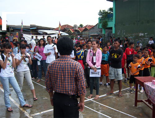 I take this picture by my camera phone